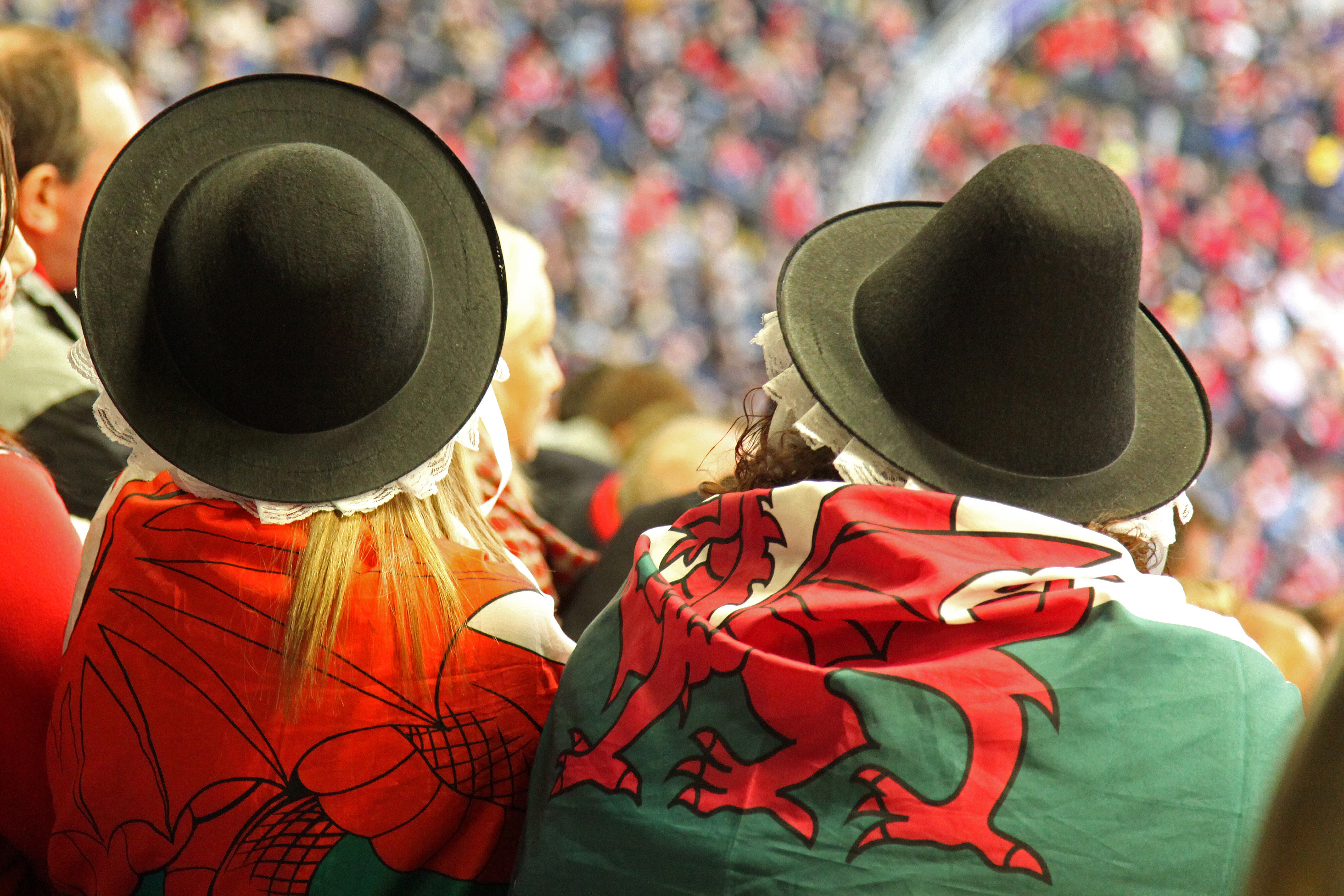 Wales' flag. Saltmead, Cardiff - Appareil photo utilisé : Canon EOS 5D Mark II - Prise le 28 novembre 2009 Wales vs Australia